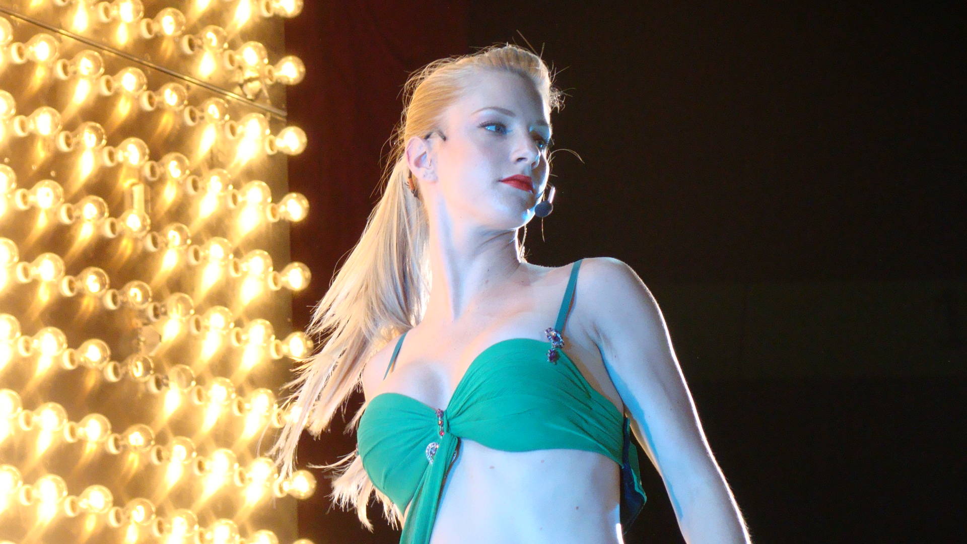 Heather Morris as Brittany Pearce performing "I'm A Slave 4 U" on the Glee Live! In Concert! 2011 tour.